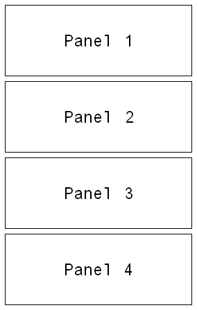 Traditional layout of a Yonkoma. Panels are read from top-to-bottom (as shown) in this layout, although alternate layouts exist in which the traditional top-right to bottom-left approach applies.